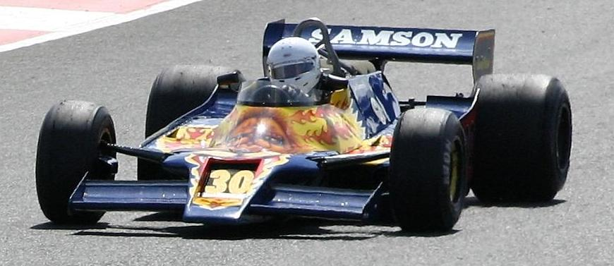 The Shadow DN9 (1979-spec.) at the 2008 Silverstone Classic race meeting.